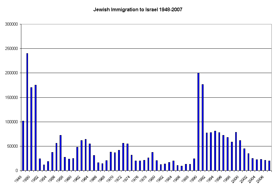 Jewish immigration to Israel between 1948 and 2007.